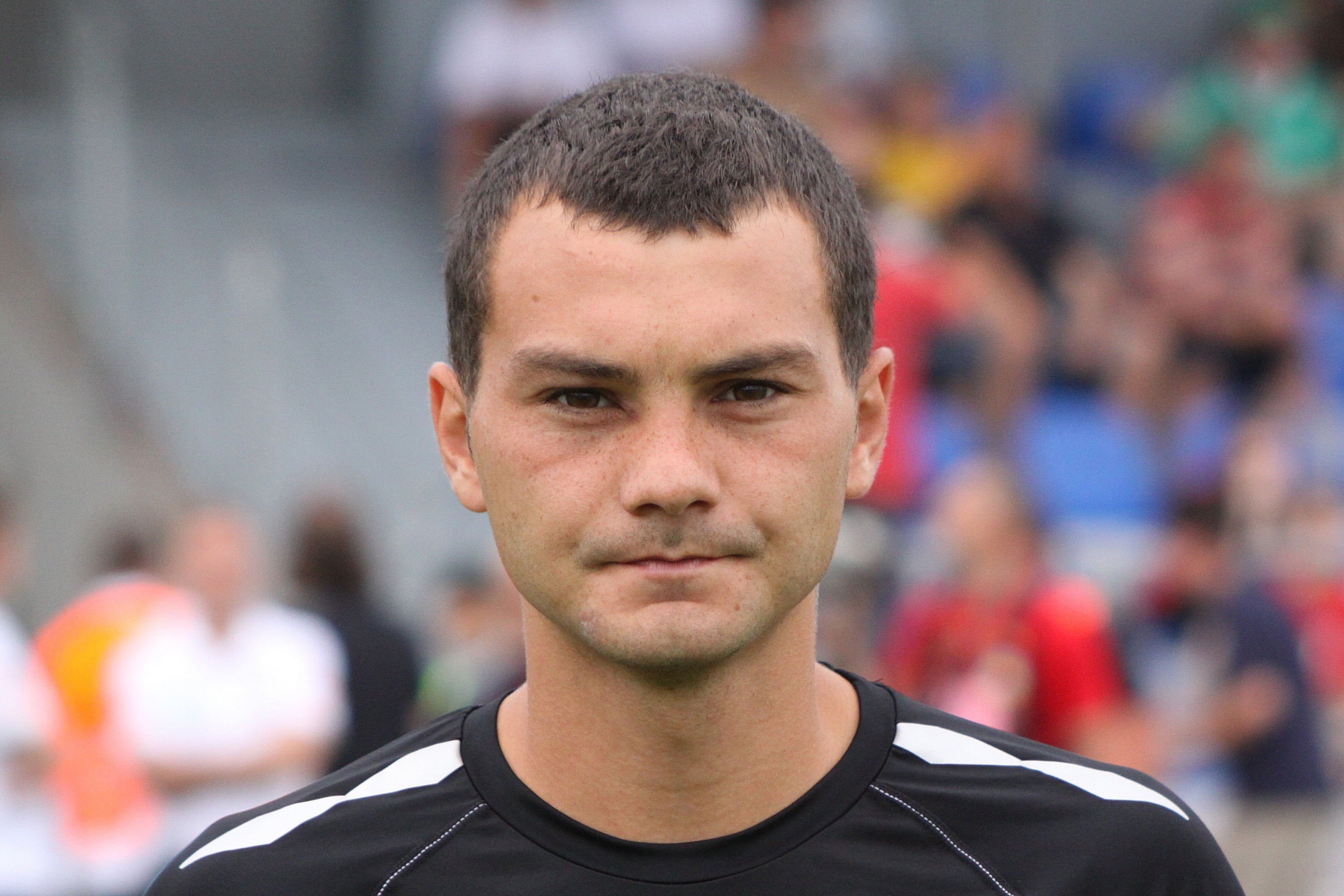 Luboš Loučka - FK Baumit Jablonec